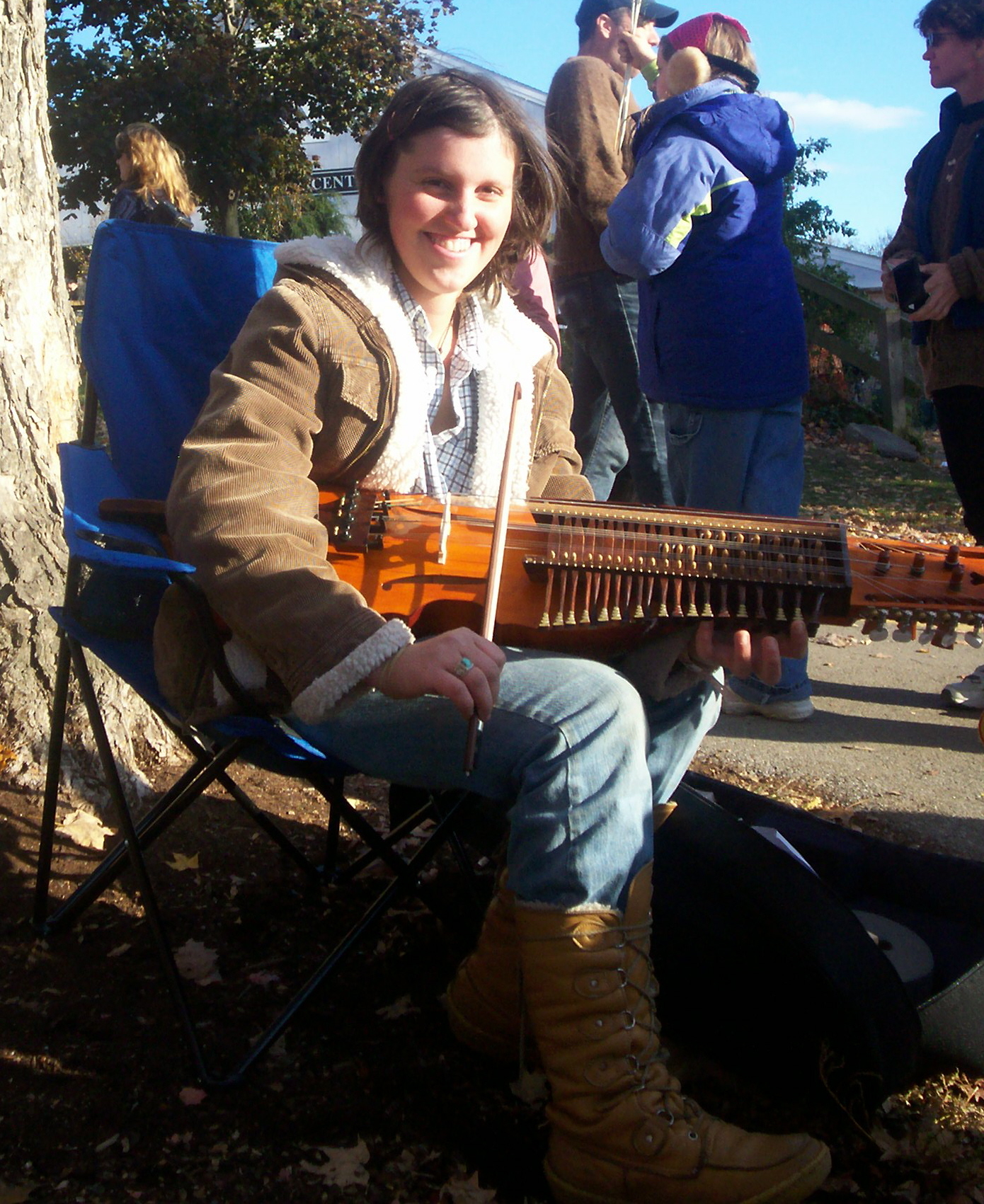 Hannah playing keyed fiddle at the New York State Sheep and Wool Festival on October 21, 2006